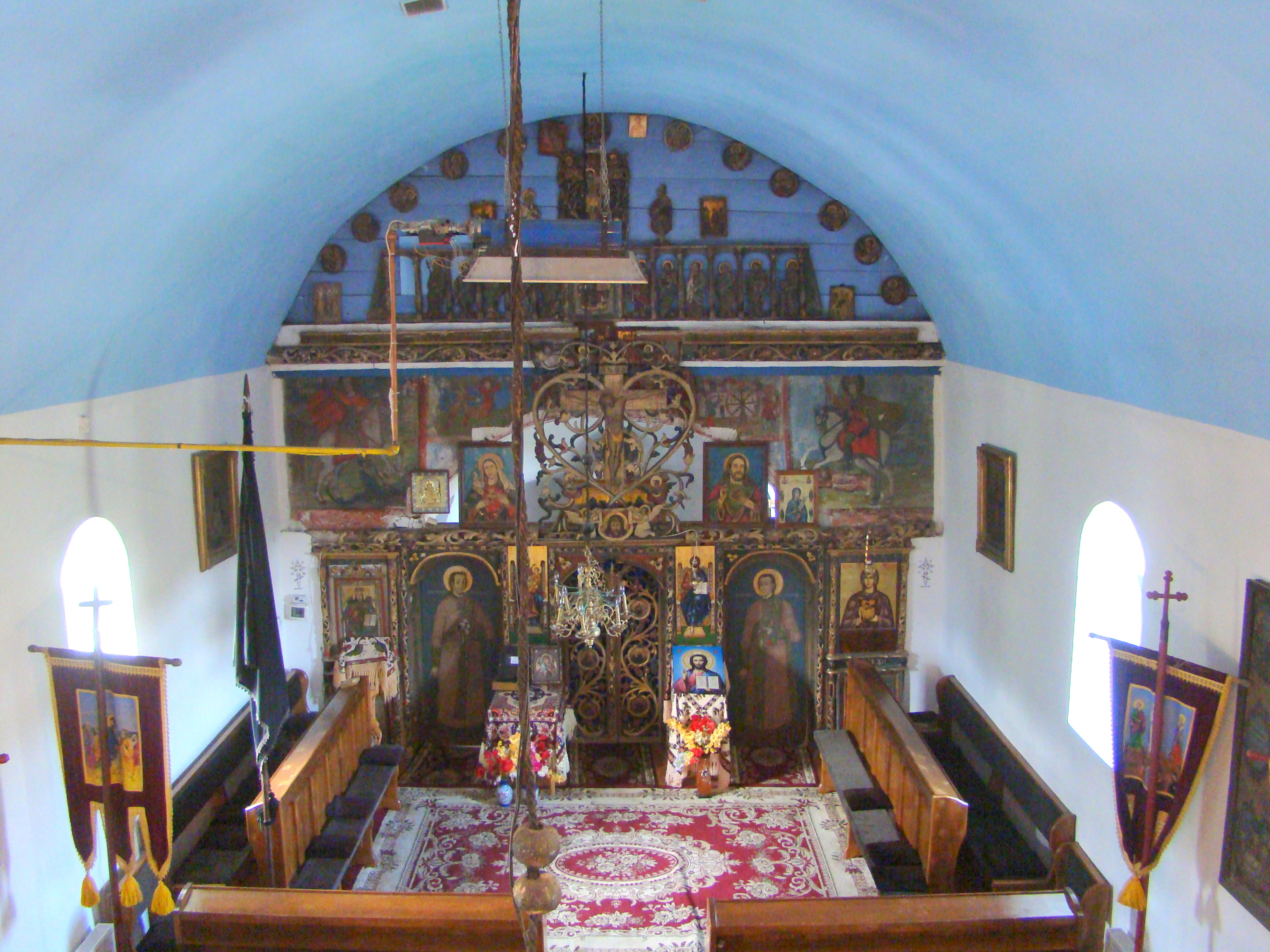 Saint Paraskeva's church in Maieru, Bistrița-Năsăud county, Romania